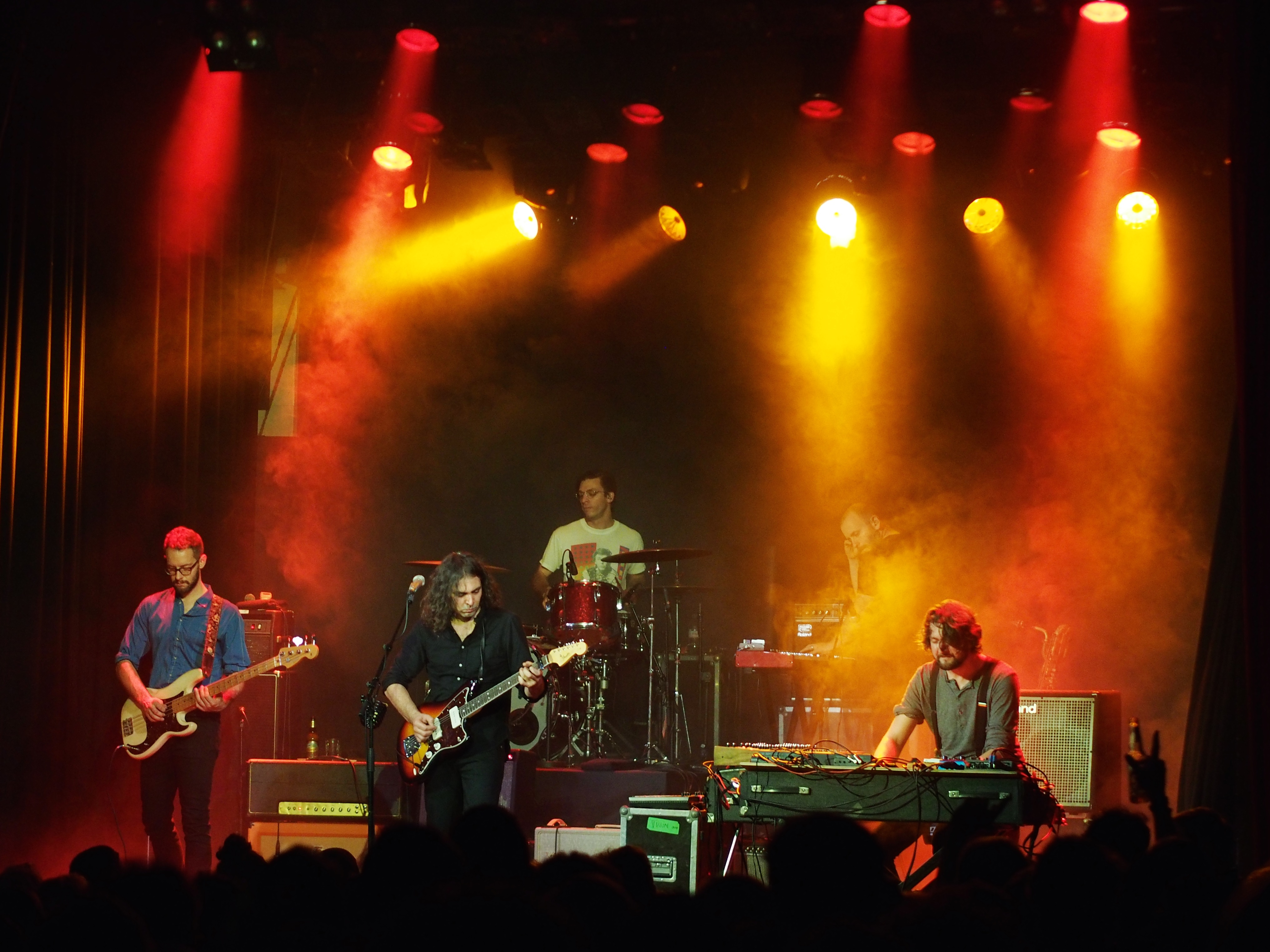 The War on Drugs, live on stage at the Kaufleuten Club Zurich, Switzerland